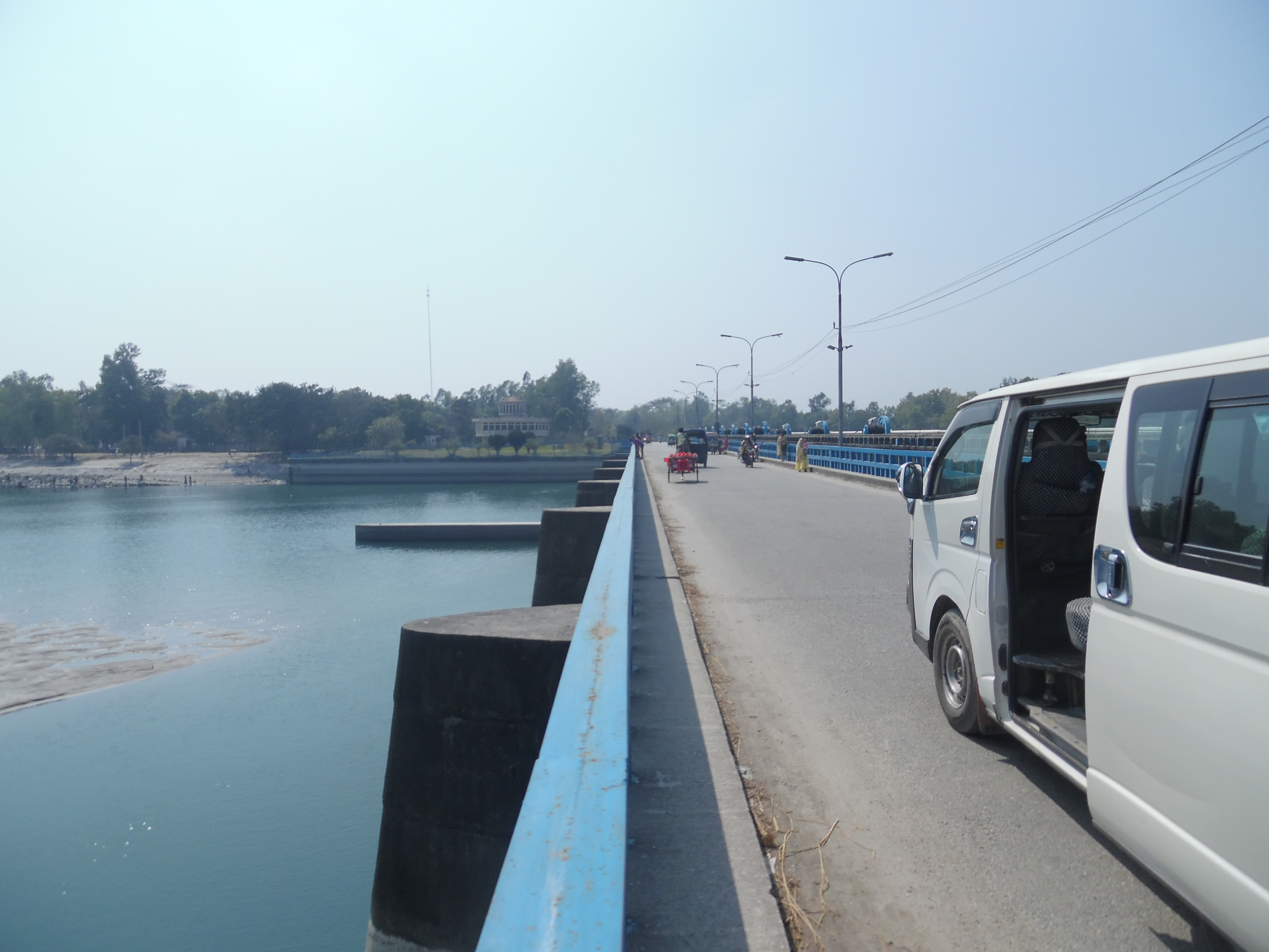 Tista Barrage on the river Tista at Dalia, Nilphamari, Bangladesh. (01.03.2019)